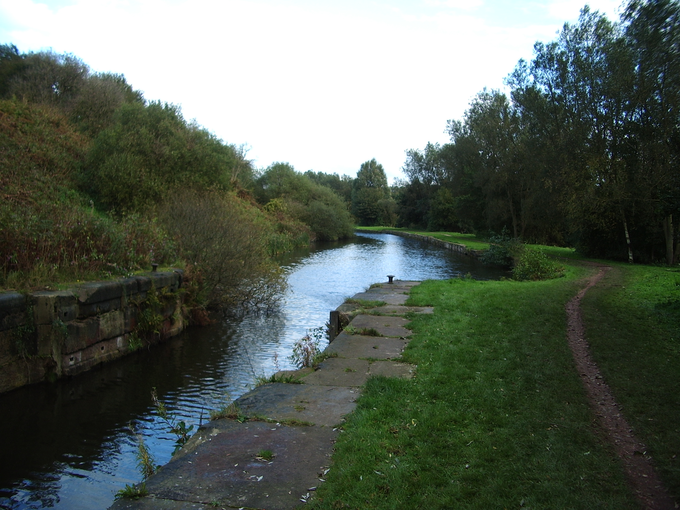 Sankey Canal, photograph taken by Lmno on 9 Oct 2004